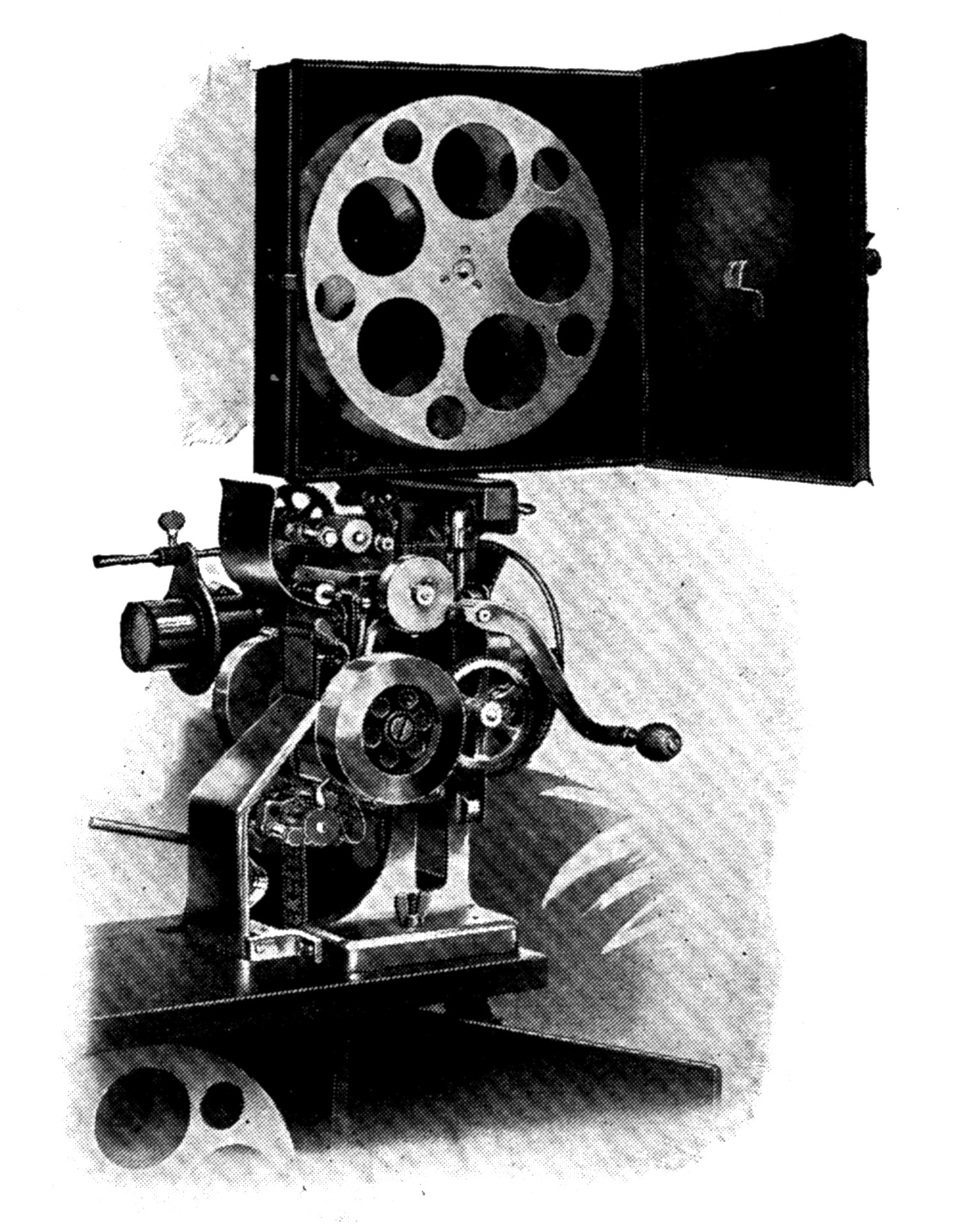 caption: "Fig. 233. Edison Kinetoscope Mechanism. The magazine doors are open showing the film reels. The film is in place ready to project."